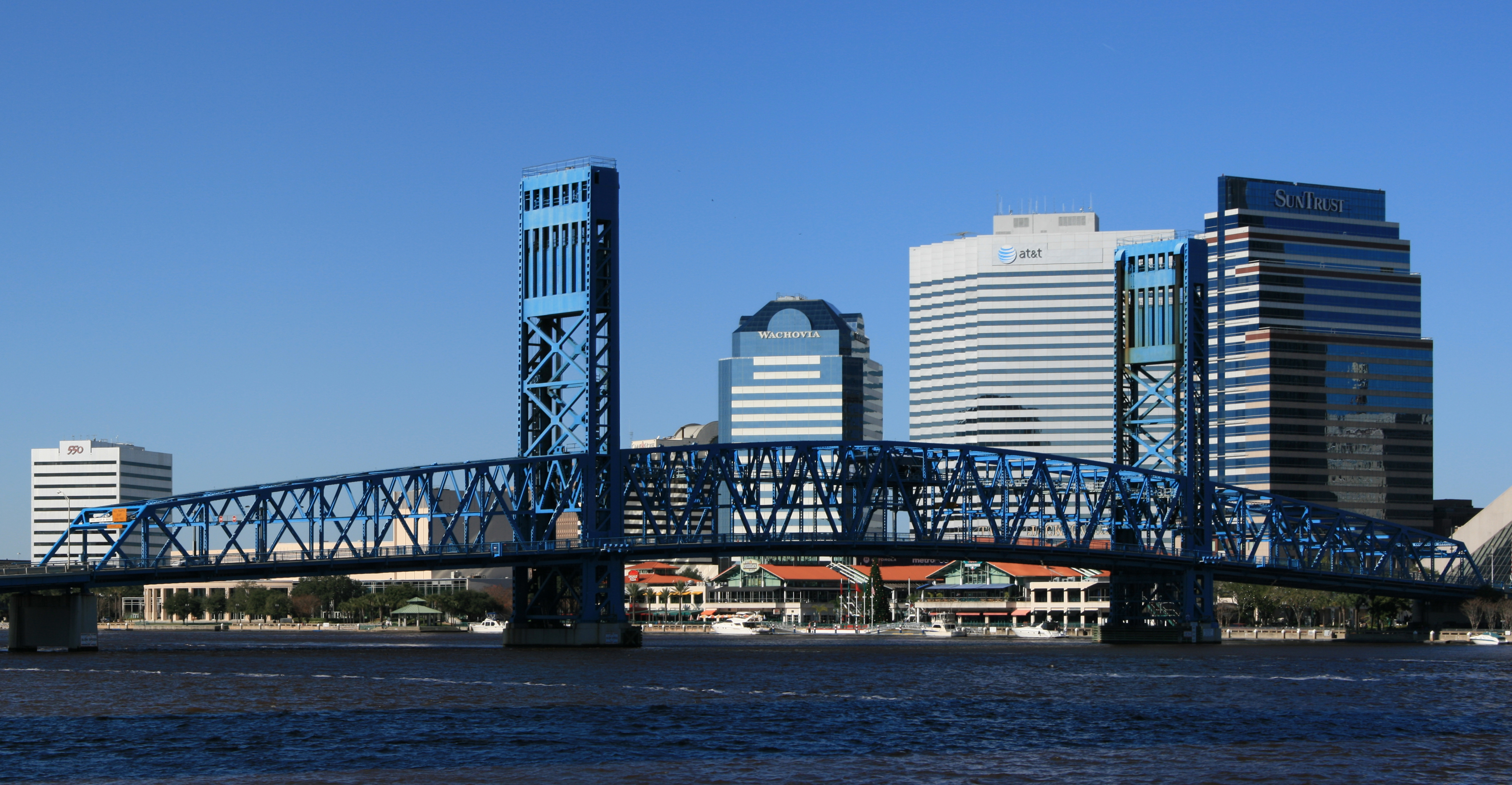 Panorama of the Jacksonville Main Street Bridge.